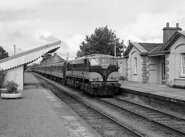 Passenger train at Moate station